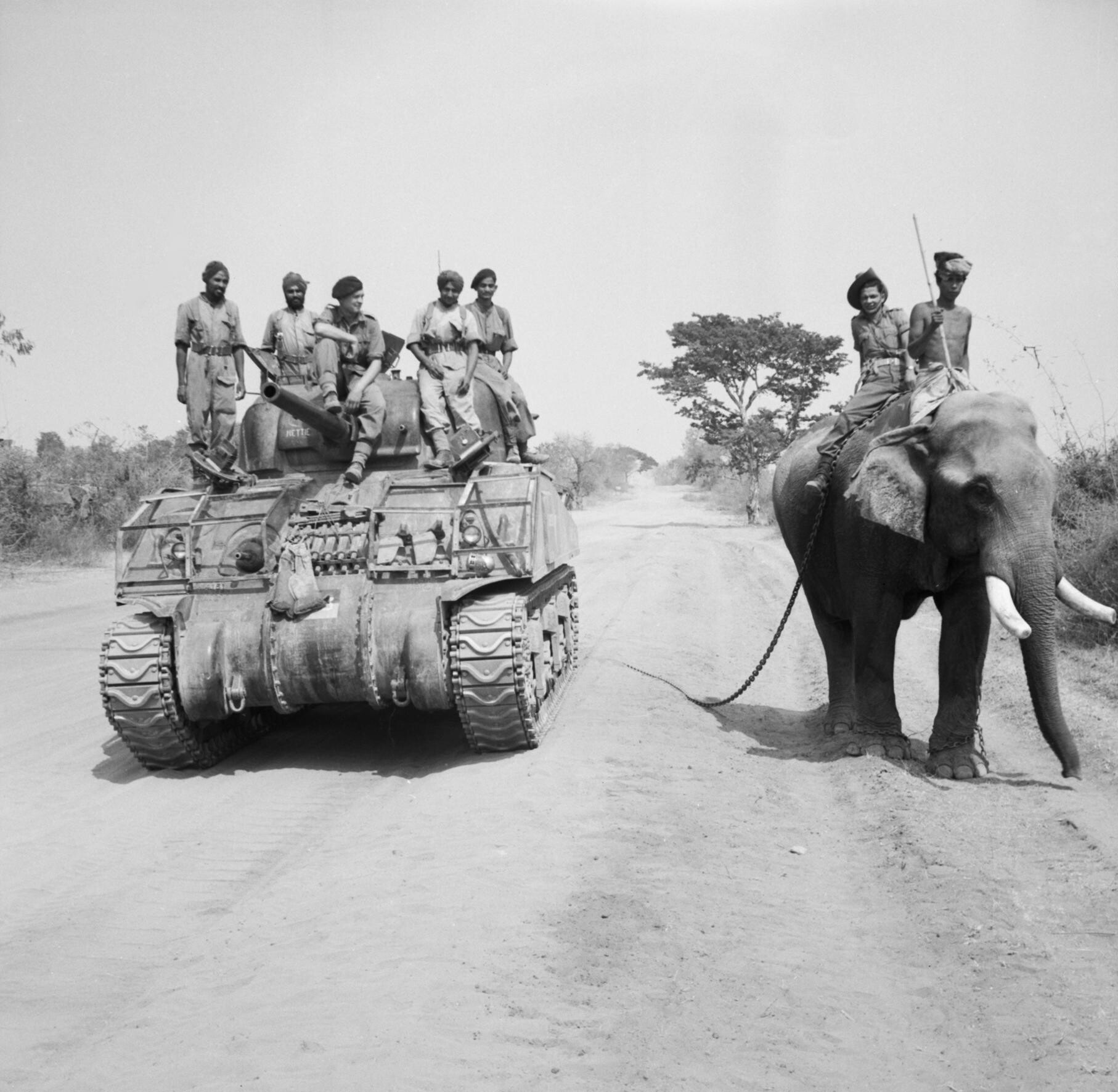 THE BRITISH ARMY IN BURMA, MARCH 1945, The British commander and Indian crew of a Sherman tank of the 9th Royal Deccan Horse, 255th Indian Tank Brigade, encounter a newly liberated elephant on the road to Meiktila, 29 March 1945.